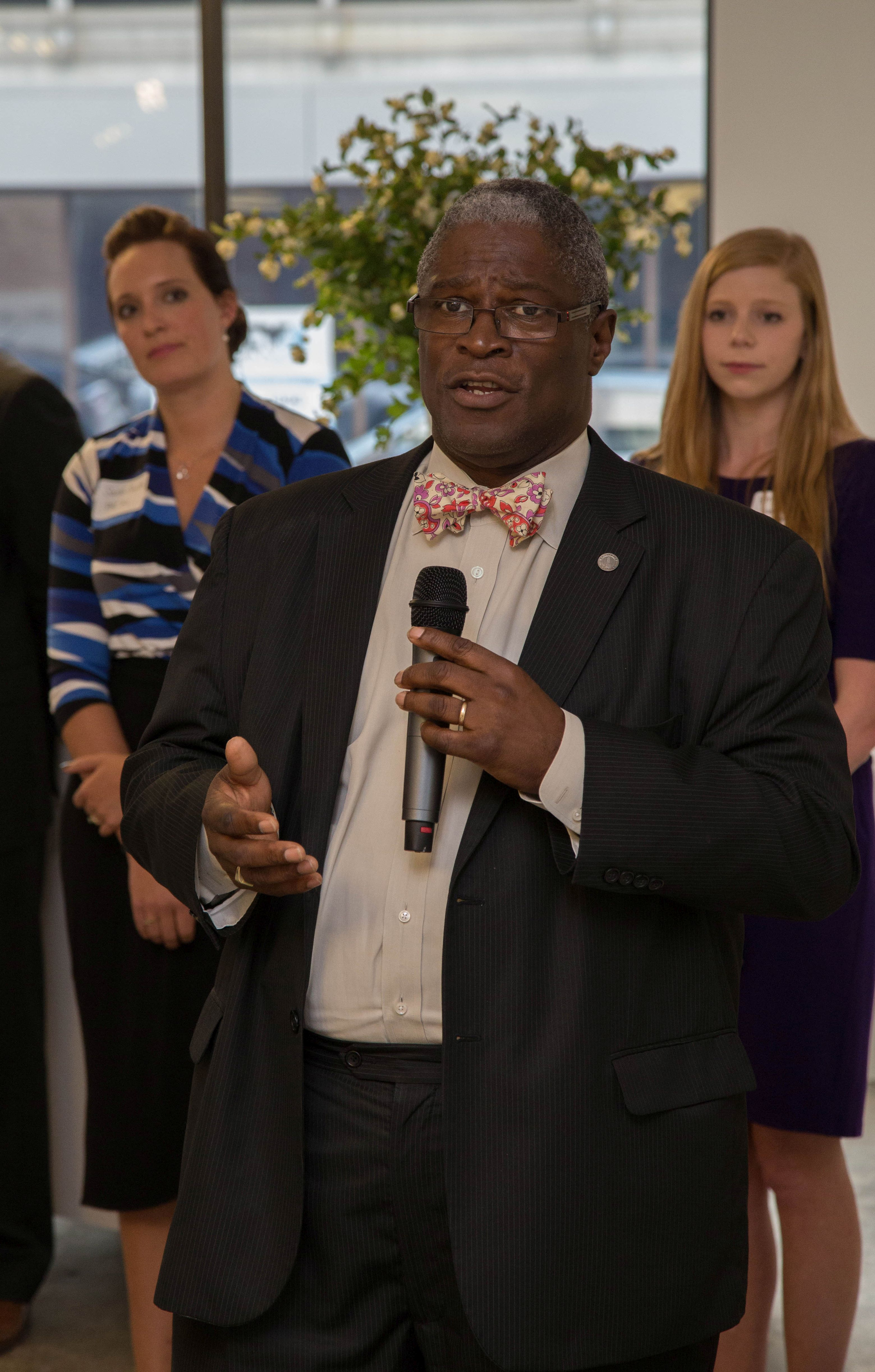 Sly JamesKansas City Mayor Sly James speaking at a fund raiser benefiting Project Homeless Connect at Global Prairie on 9/17/14.